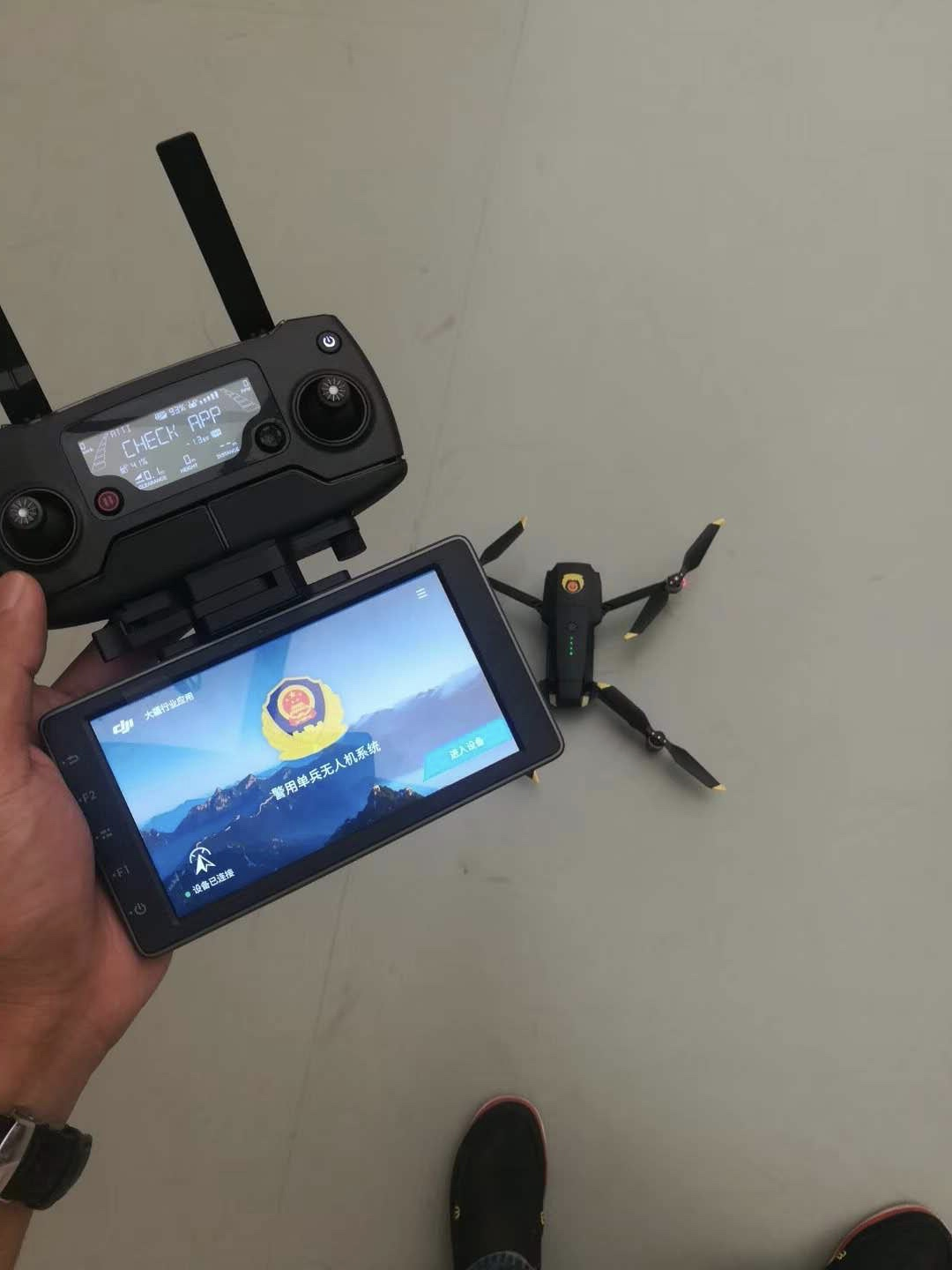 DJI Mavic Pro, for police use